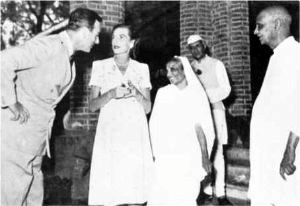 Lord and Lady Mountbatten taking leave of Sardar and his daughter at Mussoorie. In the rear is the then Prime Minister Jawaharlal Nehru.